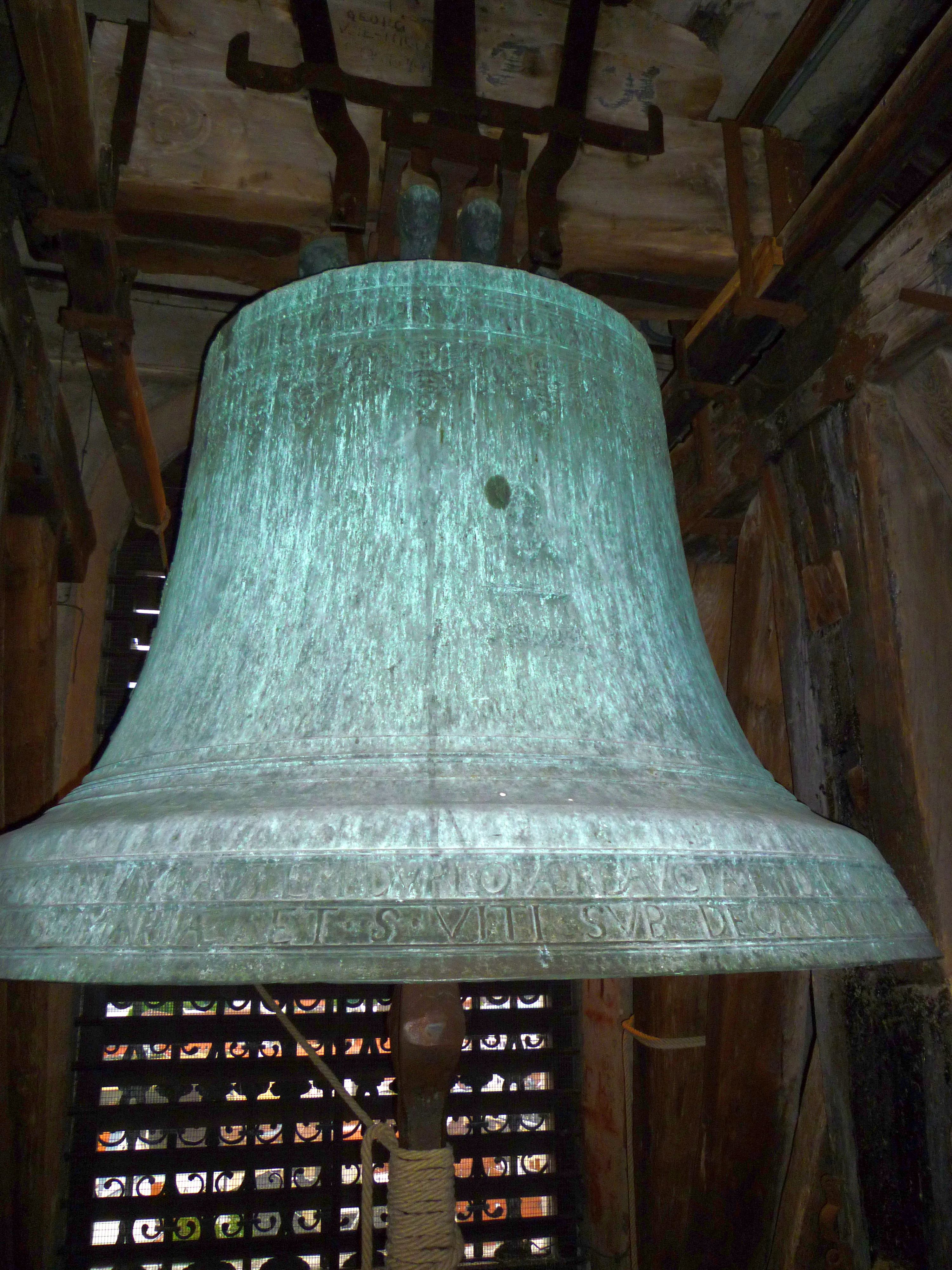 Big bell of Piarist Church in Krems an der Donau, cast 1702 by Mathias Prininger. Strike tone gis0, weight 5.016 kg, diameter 208 cm.